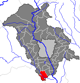 This map shows the area of the Gemeinde (municipality) Zwaring-Pöls in the Bezirk (district) Graz-Umgebung, Styria, Austria.